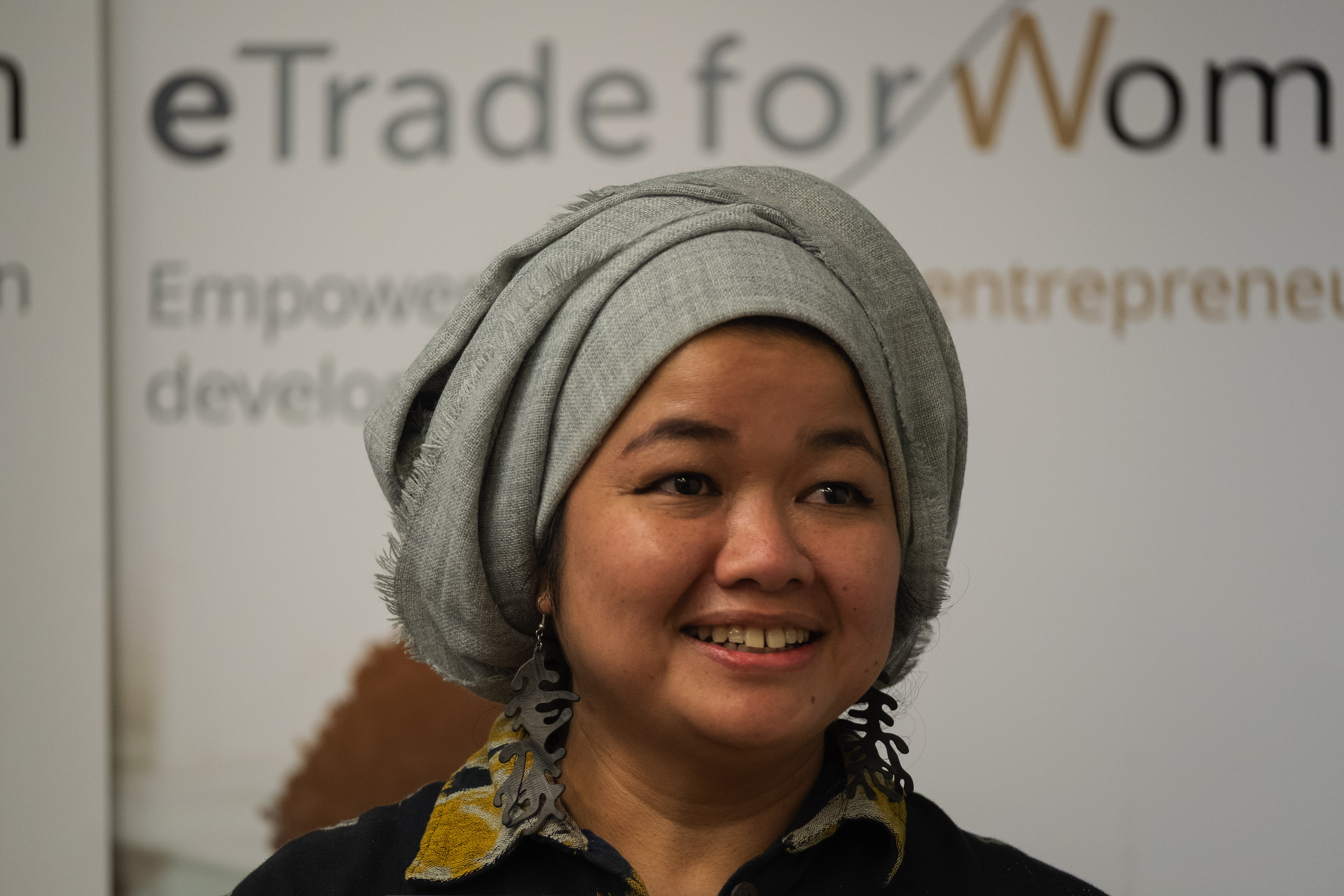 Helianti Hilman loaded by Victuallers